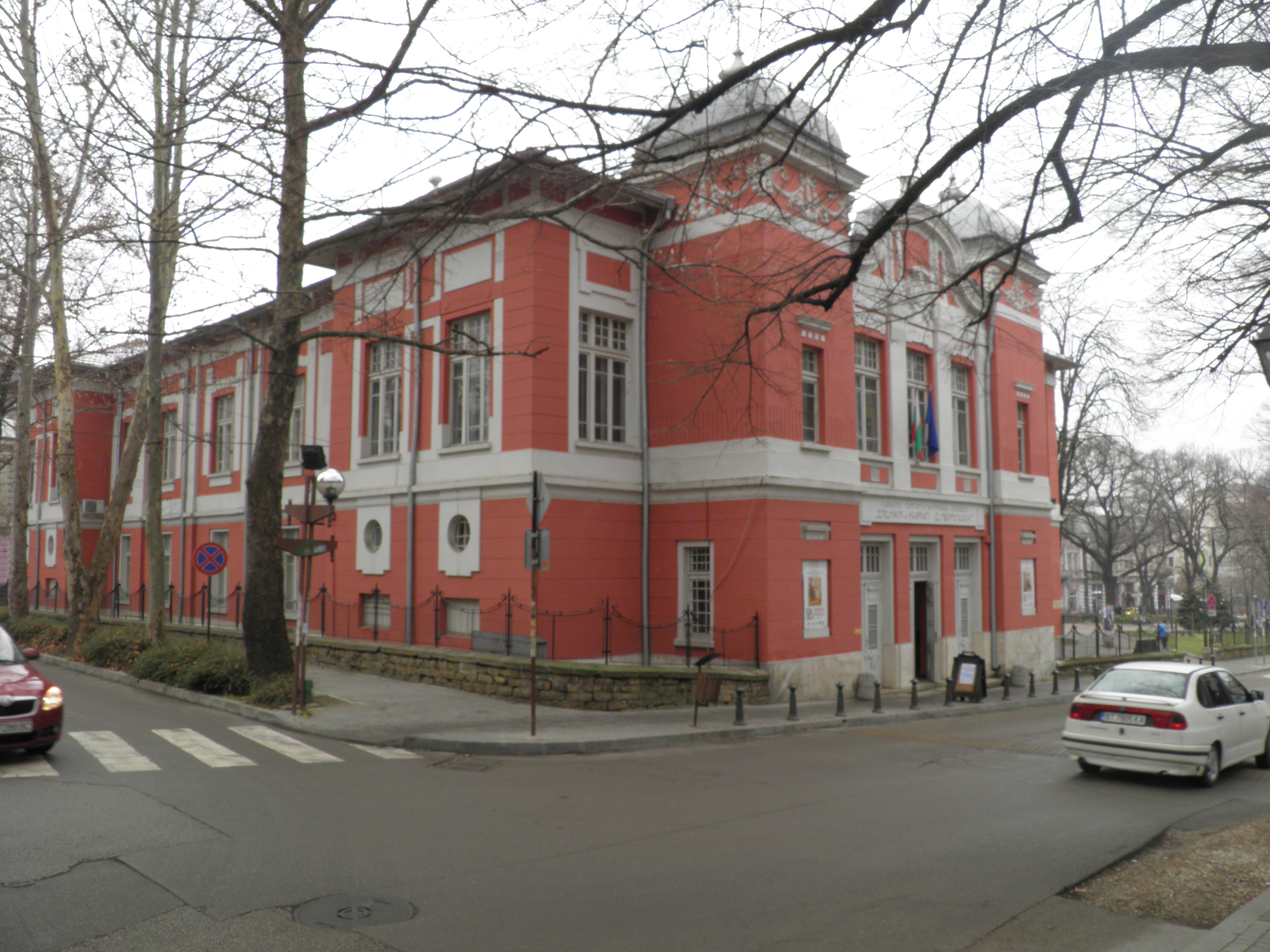 The first Community center in Bulgaria builded in 1859